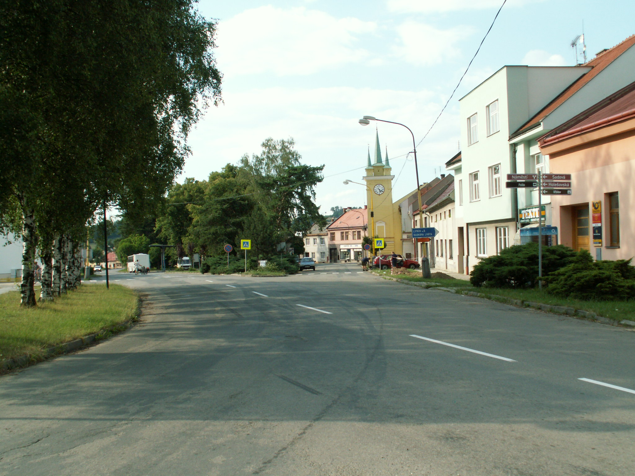 Drevohostice (Czech Republic) - square